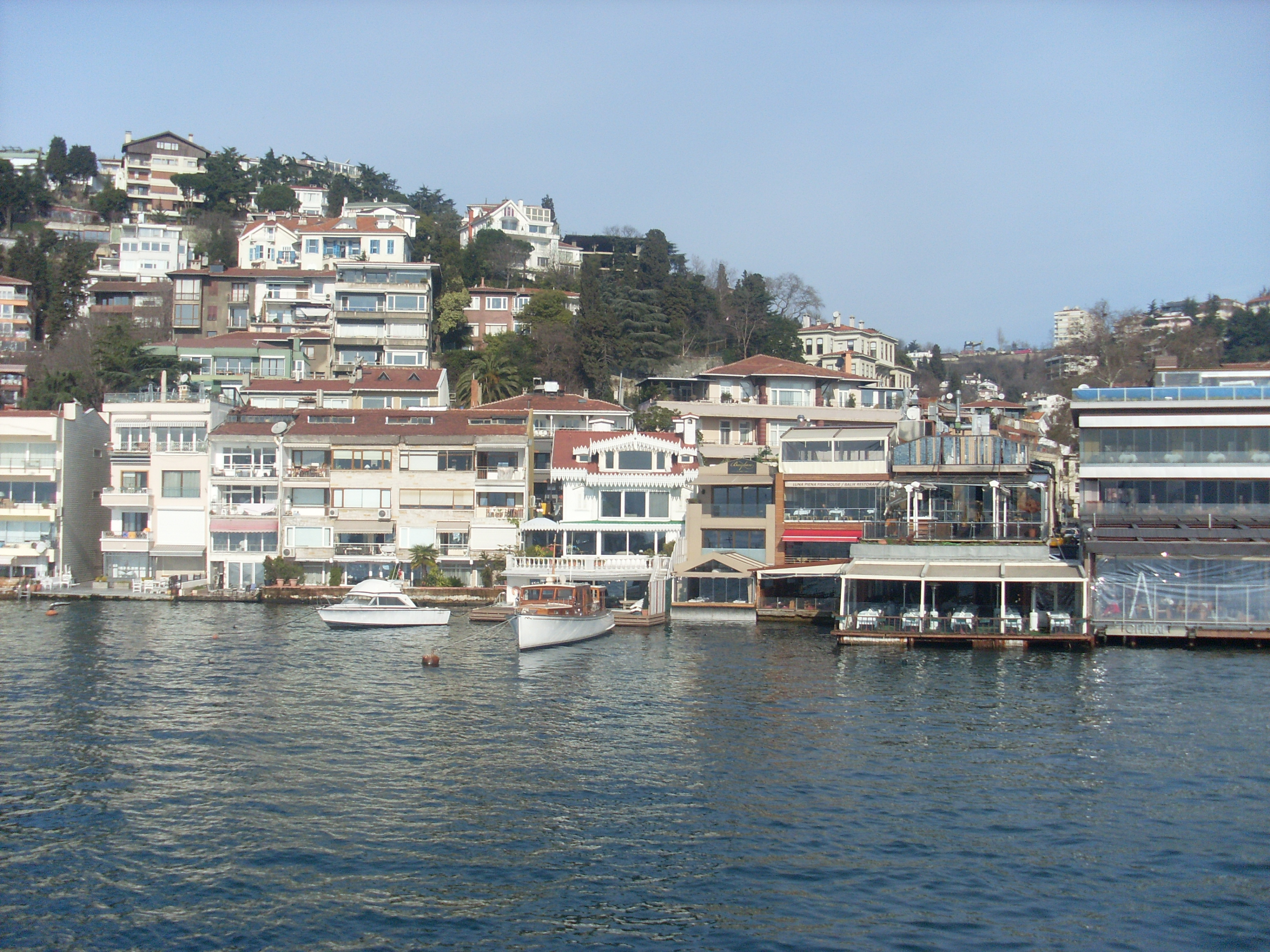 İstanbul - Bebek, Beşiktaş r1 - feb 2013